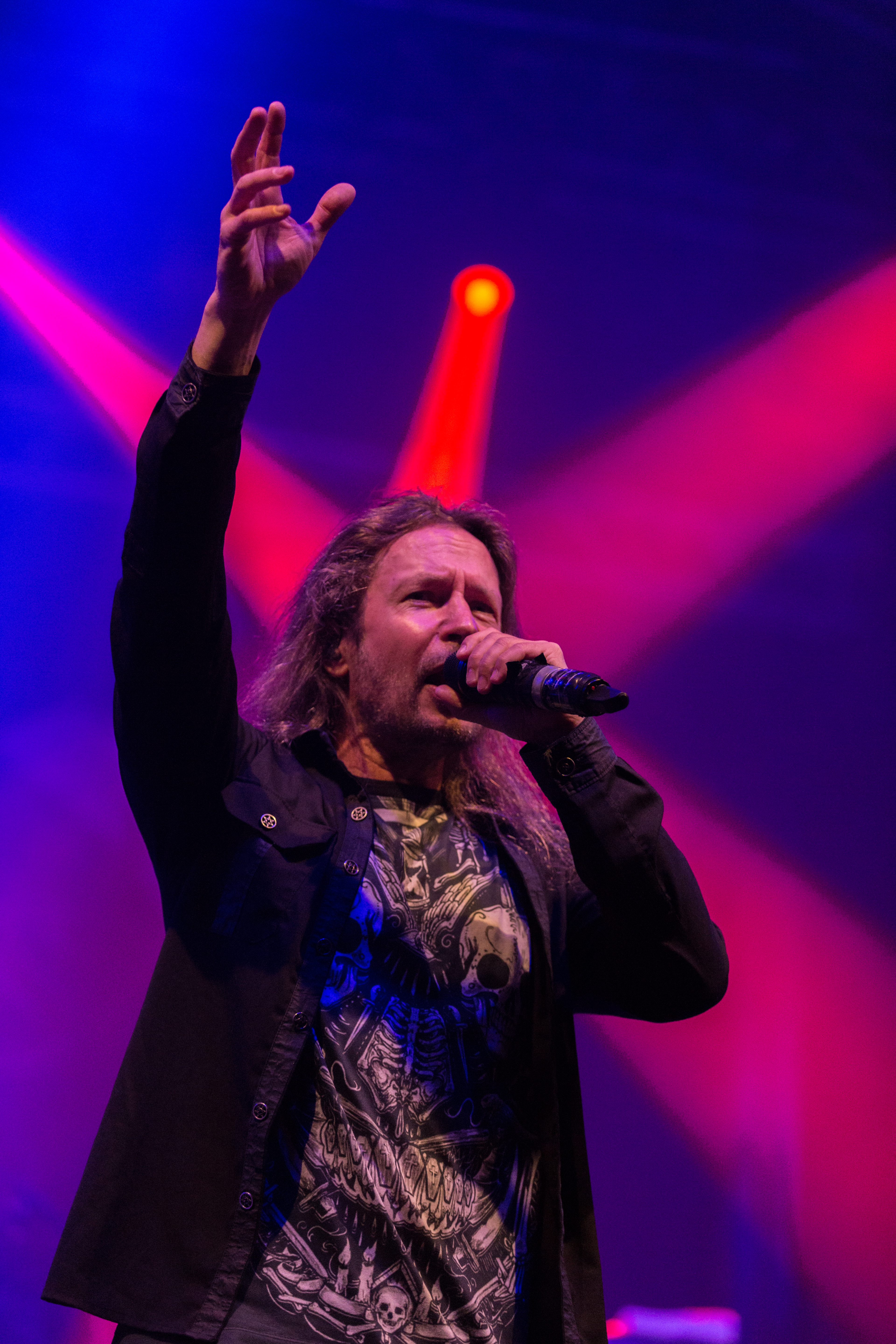 The Finnish power metal band Stratovarius at the Metal Frenzy 2017 in Gardelegen/Germany.